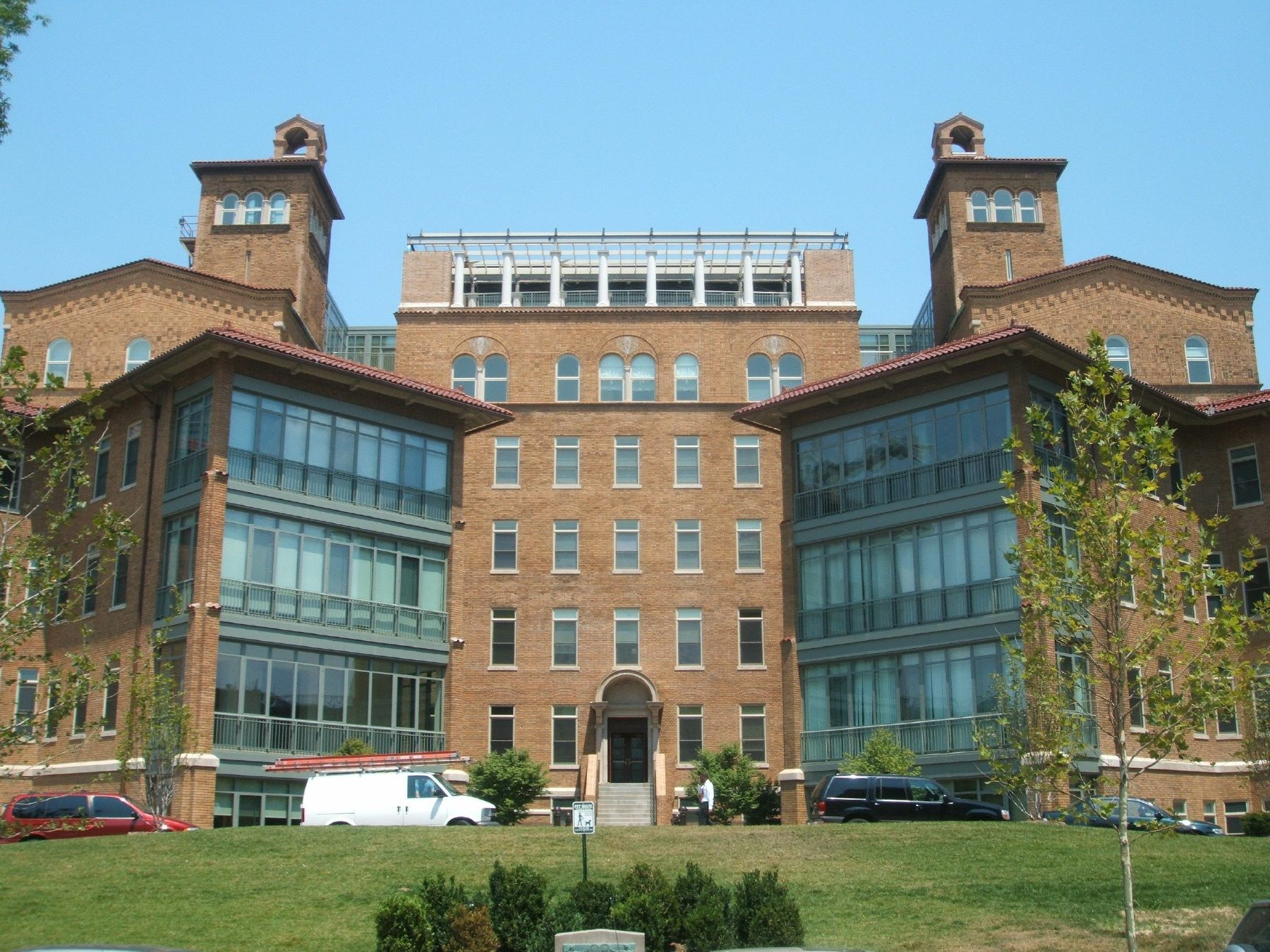 The "Columbia Residences" (formerly Columbia Hospital for Women) at 2425 L Street NW (near Pennsylvania Avenue and 25th Street), Washington, D.C.